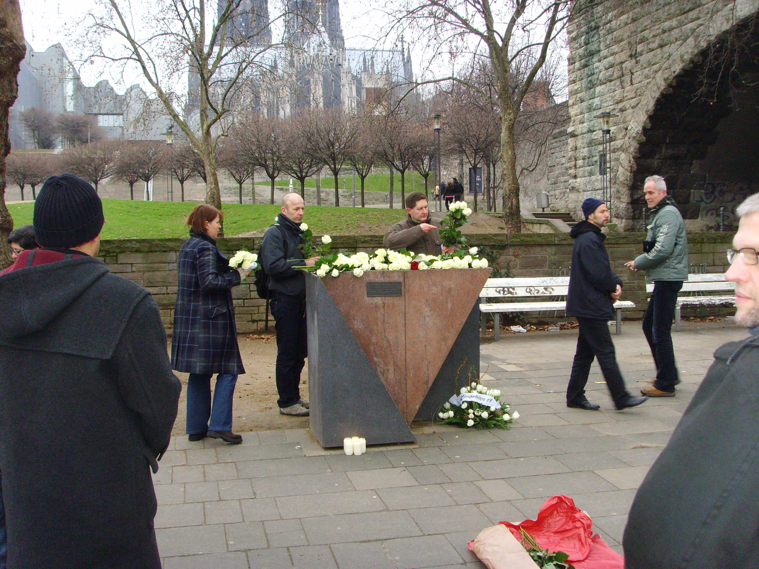 Event 27.01.2008 at the memorial homosexual Cologne